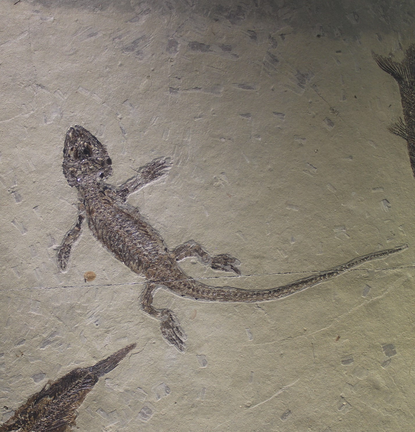 Juvenile fossil of Monjurosuchus splendens on display at the Beijing Museum of Natural History.